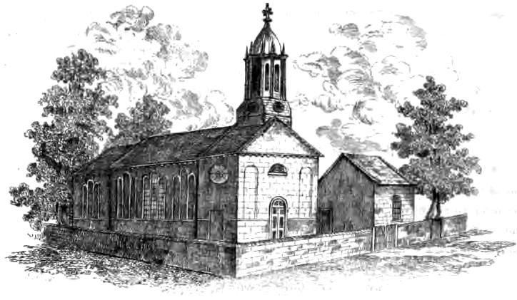 A view of the chapel of ease at Shireoaks, Nottinghamshire, as it appeared when first built in 1809, from an illustration published in 1826: the building, modified, is now the village hall.